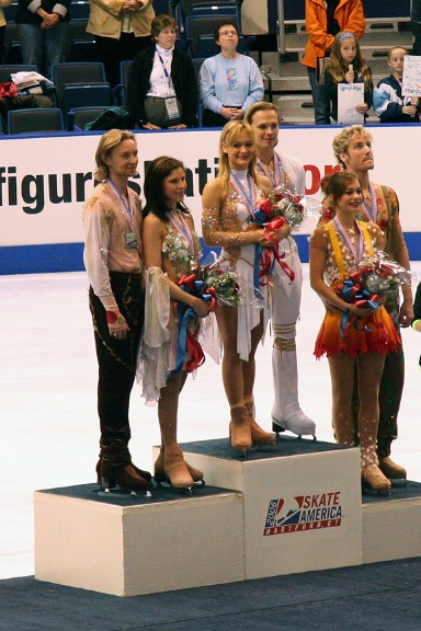 The ice dancing podium at the 2006 Skate America. Left to right: Melissa Gregory and Denis Petukhov (silver); Albena Denkova and Maxim Staviski (gold); Nathalie Pechalat and Fabian Bourzat (bronze).